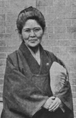 A middle-aged Japanese woman, standing in front of a brick wall. She is wearing a simple, dark, kimono jacket, holding a bundle, hands clasped. She wears glasses and her hair is dressed in an updo.